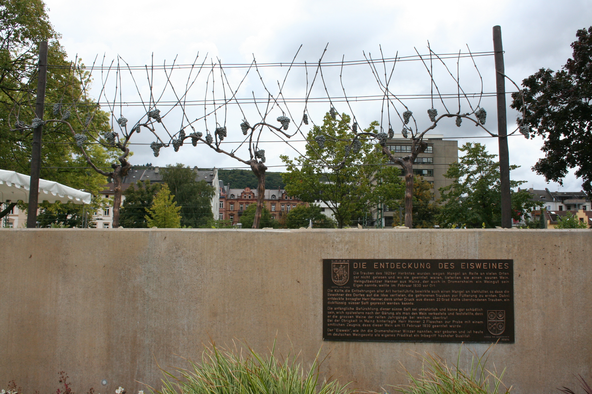 Discovery of ice wine memorial, Bingen/Rhine, Germany